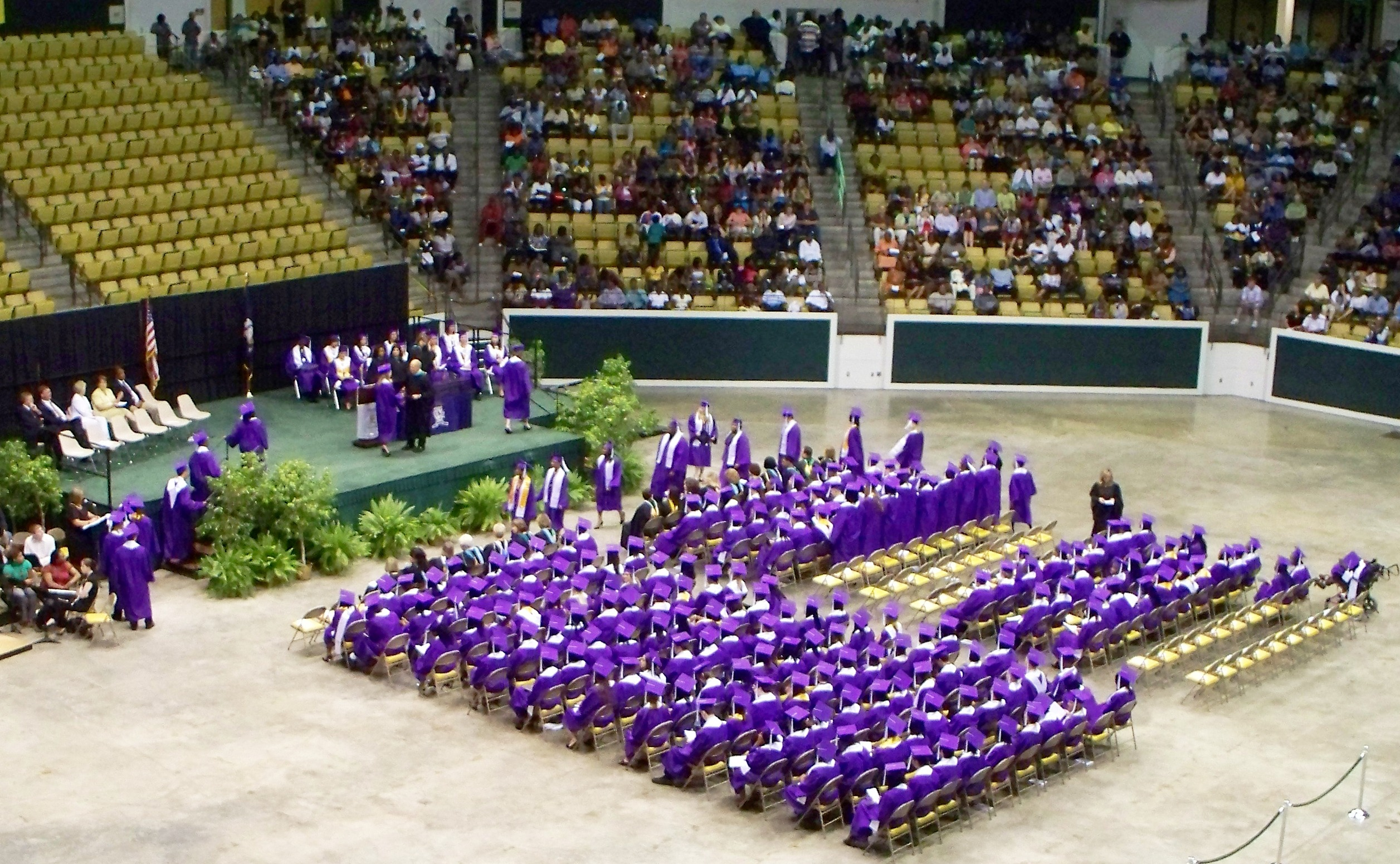 Hammond High School Louisiana commencement exercise 2009 May in the Southeastern Louisiana University Center